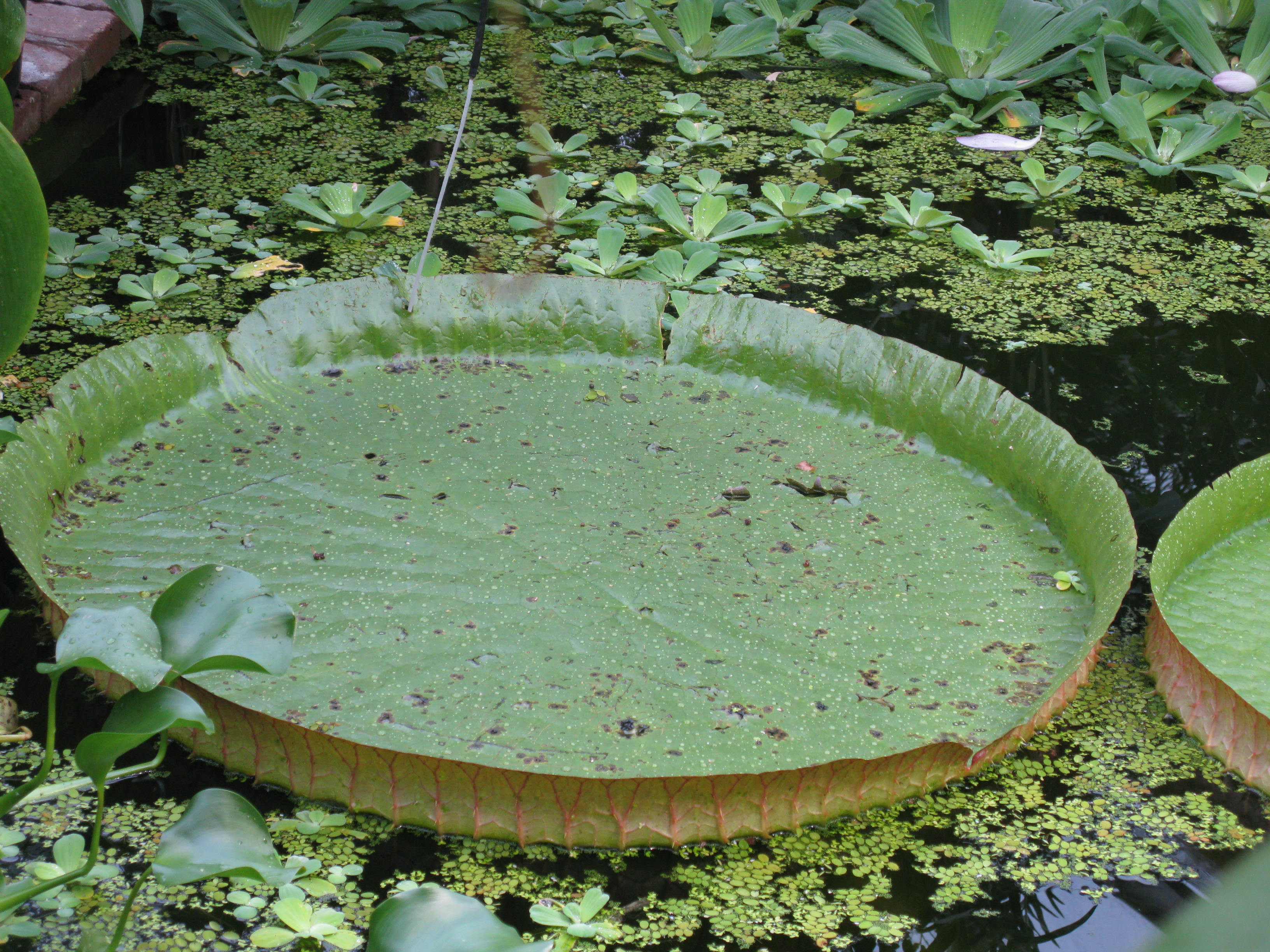 Victoria cruziana's big leaf. Taken in the Lund Botanical Garden